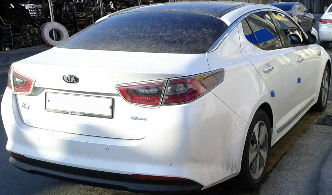 Kia K5 Hybrid 500h